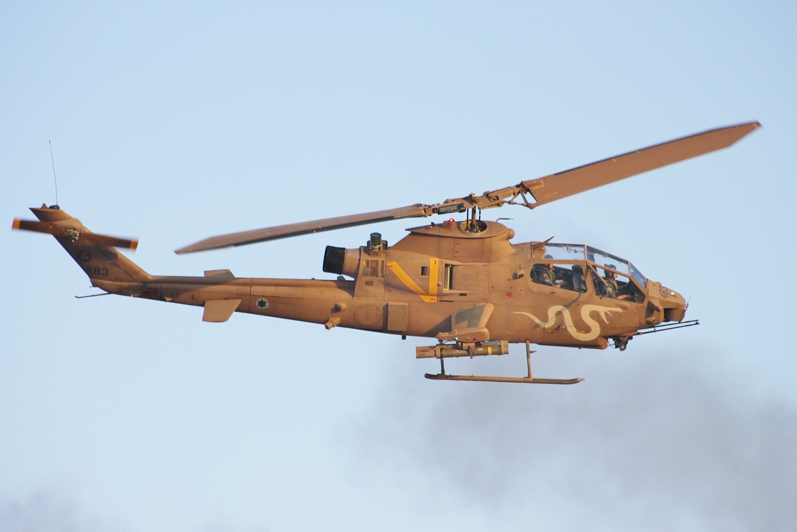 Israeli AH-1